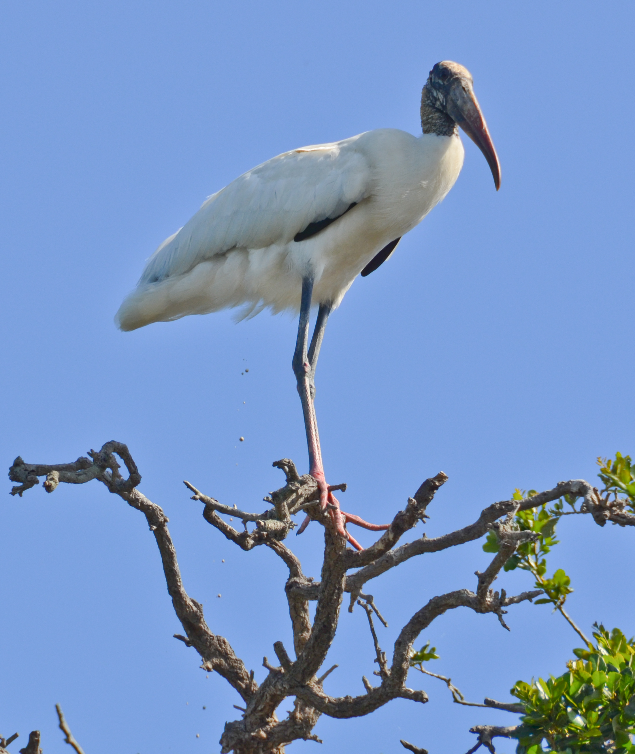 Wood stork by Bonnie Gruenberg